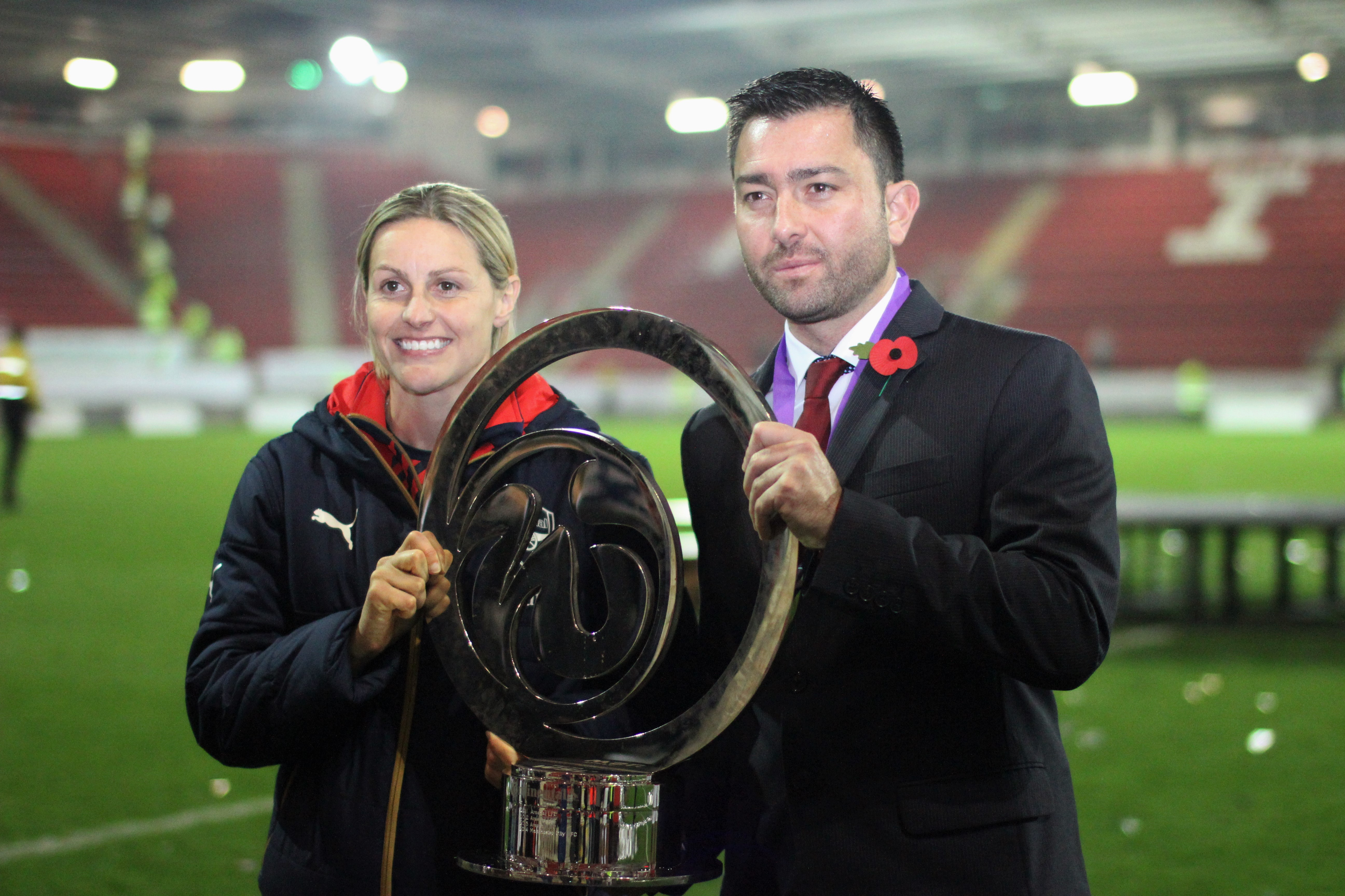 Arsenal Ladies coaching staff Kelly Smith and Pedro Martinez Losa with the Continental Cup trophy.